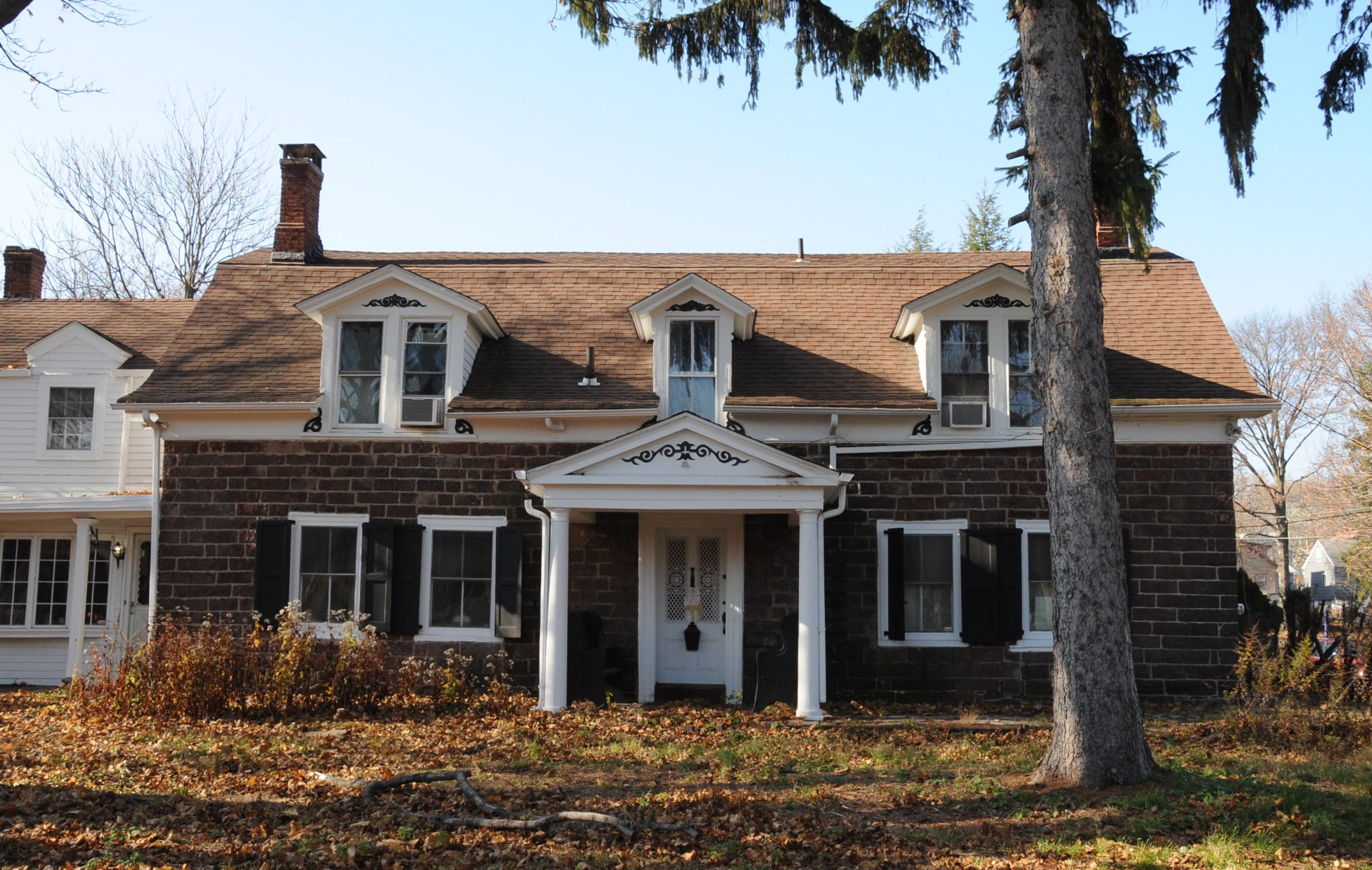 HOUSE BIUILT IN 1763